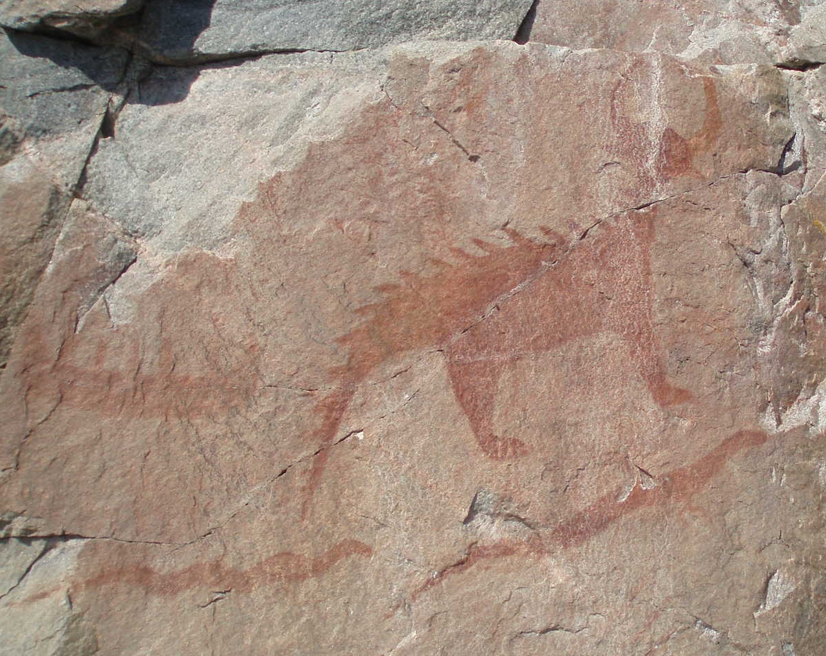 A set of pictographs (roch art paintings) on Agawa Rock at Lake Superior Provincial Park, Ontario, Canada.